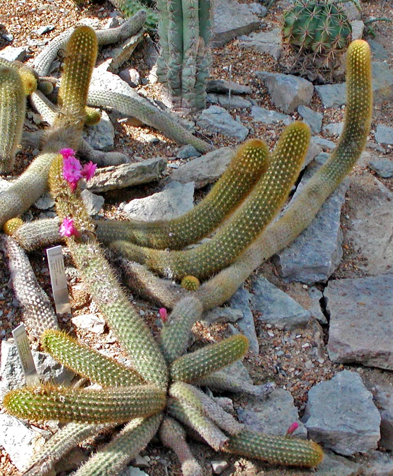 Photo of Cleistocactus icosagonus at Aarhus Botanical Garden